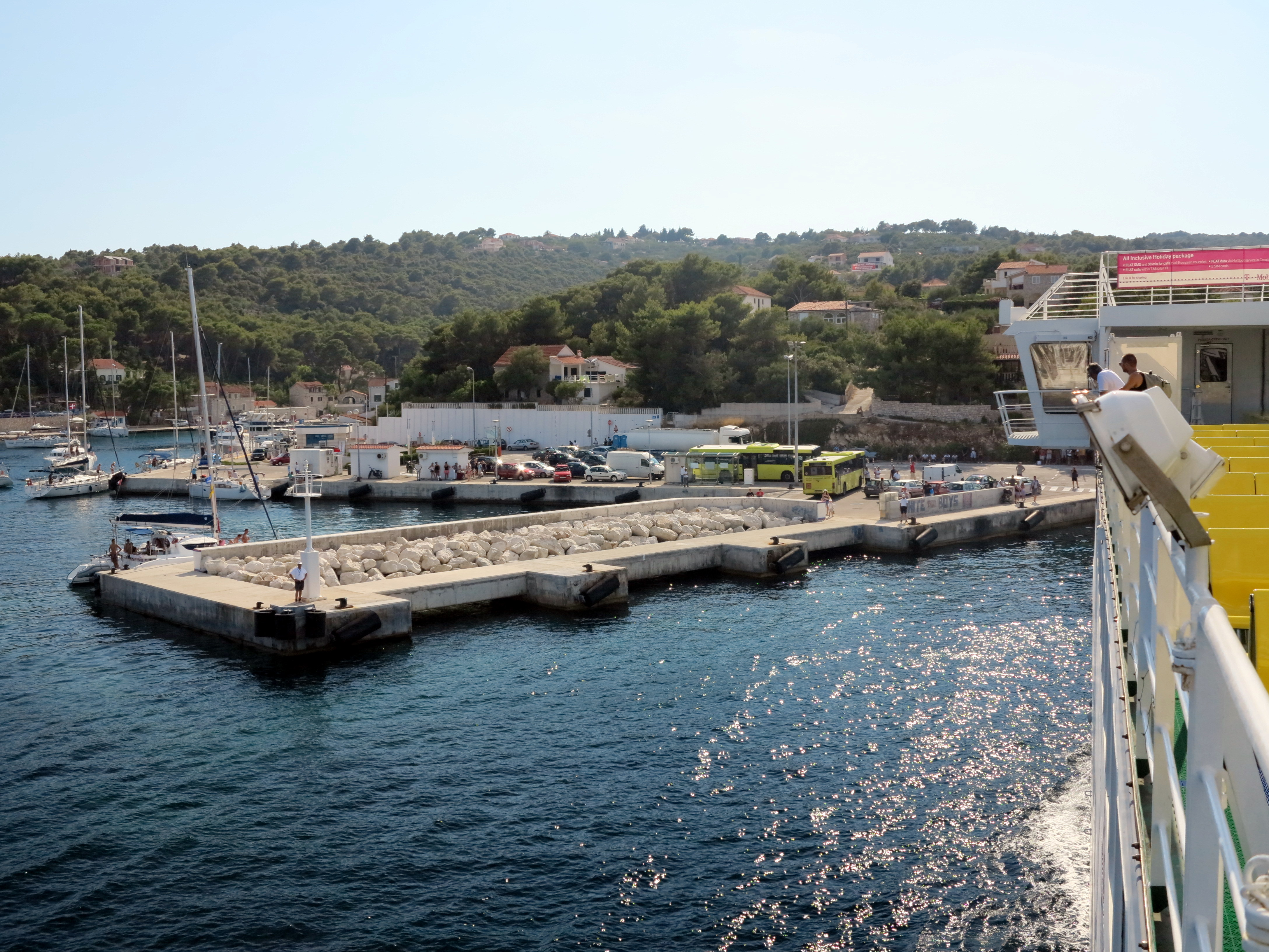 Rogač on the island Šolta / Croatia / Adriatic Sea. At the place where the ferry quay invests wait the yellow buses.